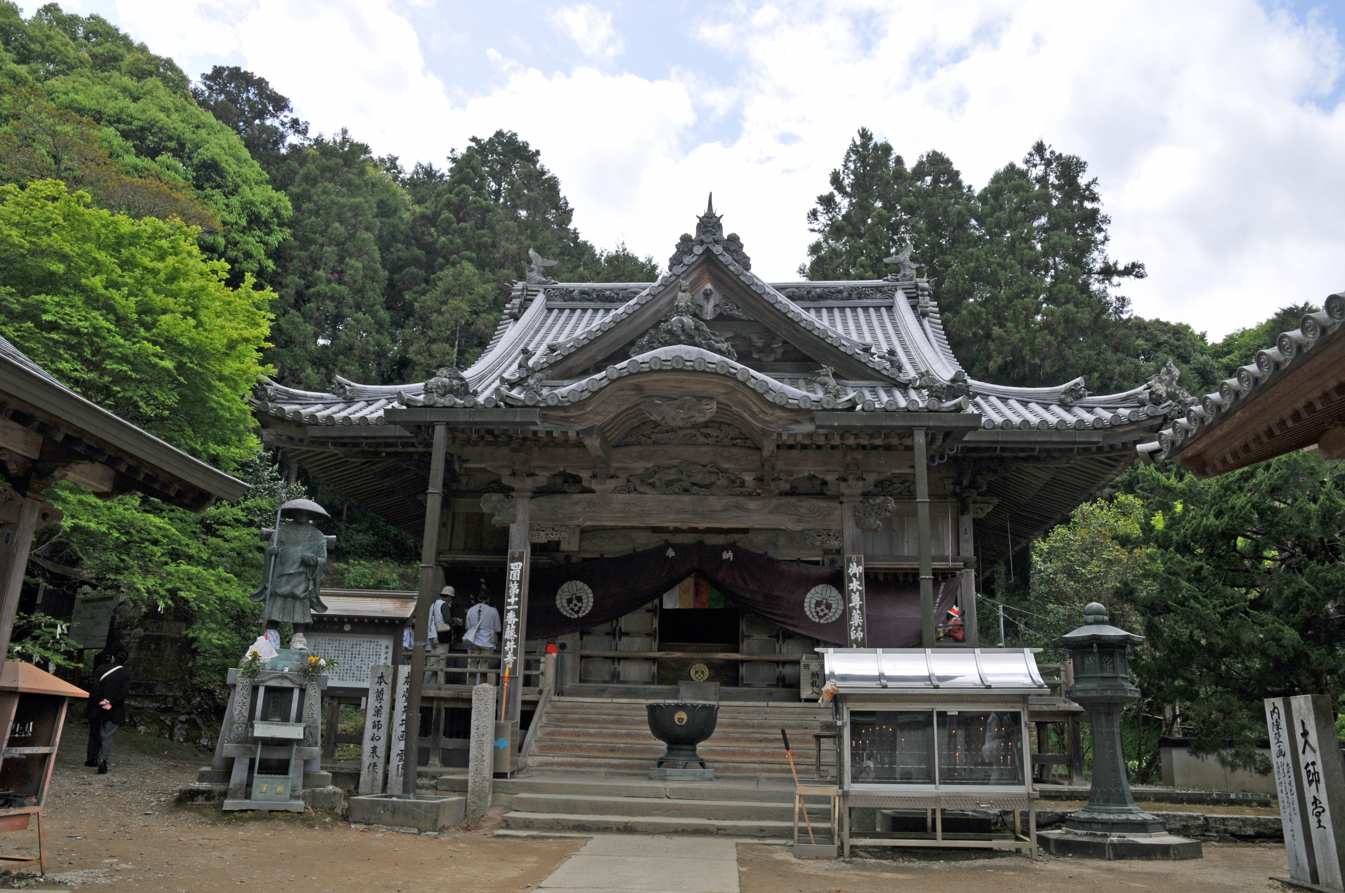 Main temple, Fujii-dera